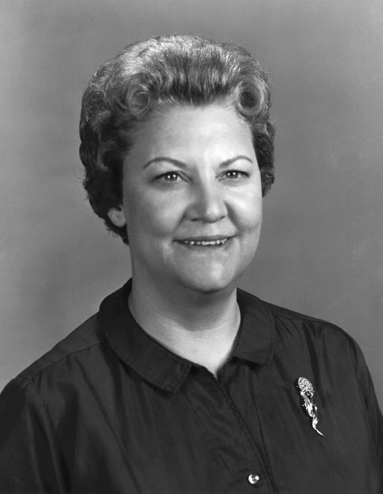 Kentucky Secretary of state Thelma Stovall1967